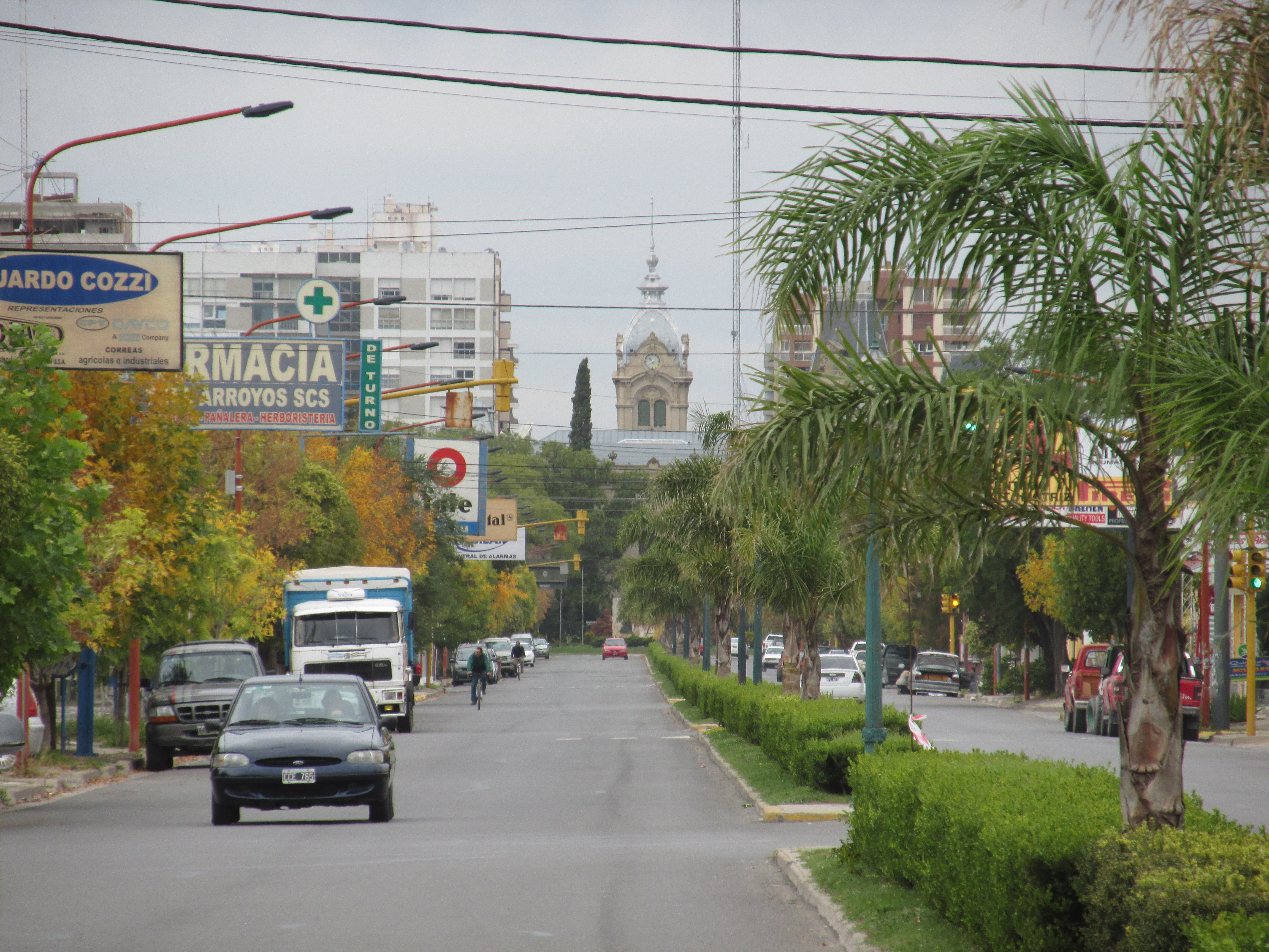 Av. San Martin, Tres Arroyos